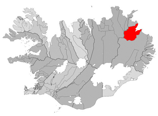 Based on Municipalities of Iceland.png.